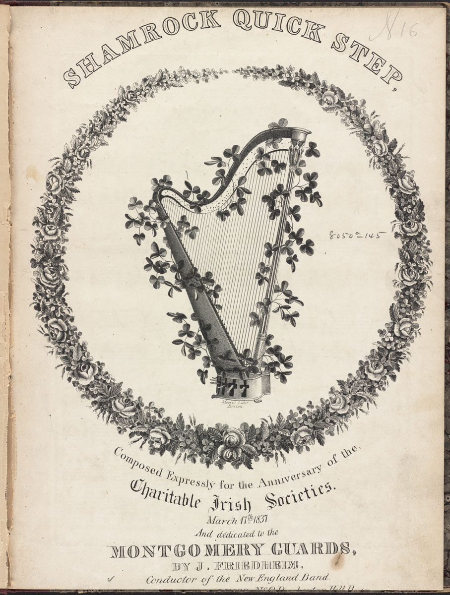 Accession No.: 07_07_000179 Call Number: 8050a.145 Lithographer: Moore, Thomas Title of Lithograph: Irish Harp Composer: Friedman, John Title of Composition: Shamrock Quick Step Place of Publication: Boston Publisher: Prentiss Date: 1837 BPL Department: Music Flickr data on 2011-08-06: Camera: Sinar AG Sinarback 54 FW, Sinar m Tags: dc:identifier=07_07_000179 License: CC BY 2.0 User: Boston Public Library BPL